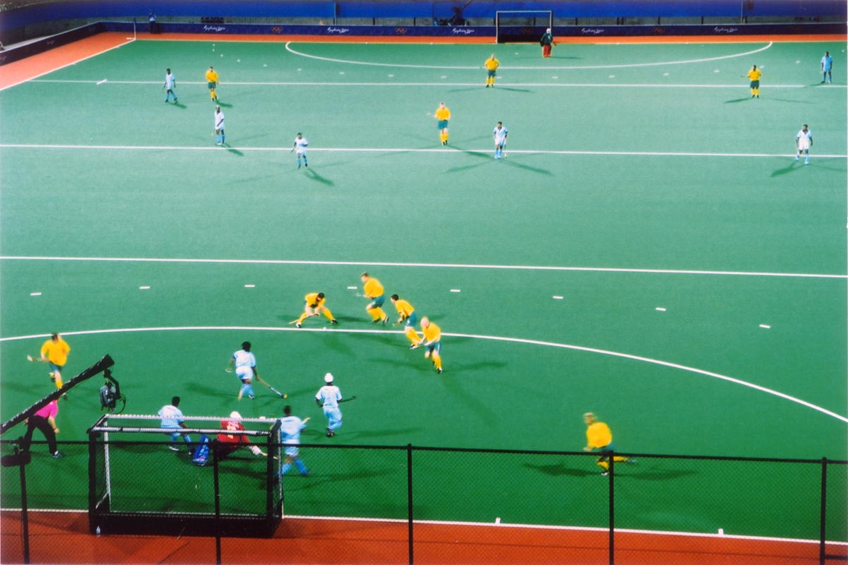 The Kookaburras at the 2000 Olympics.